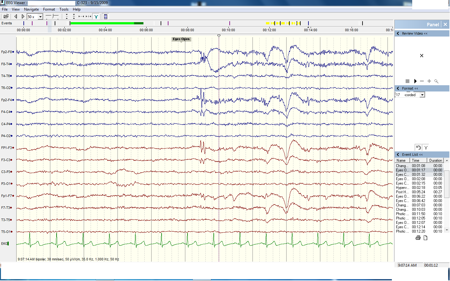 EEG of brain and heart action on opening the eyes.